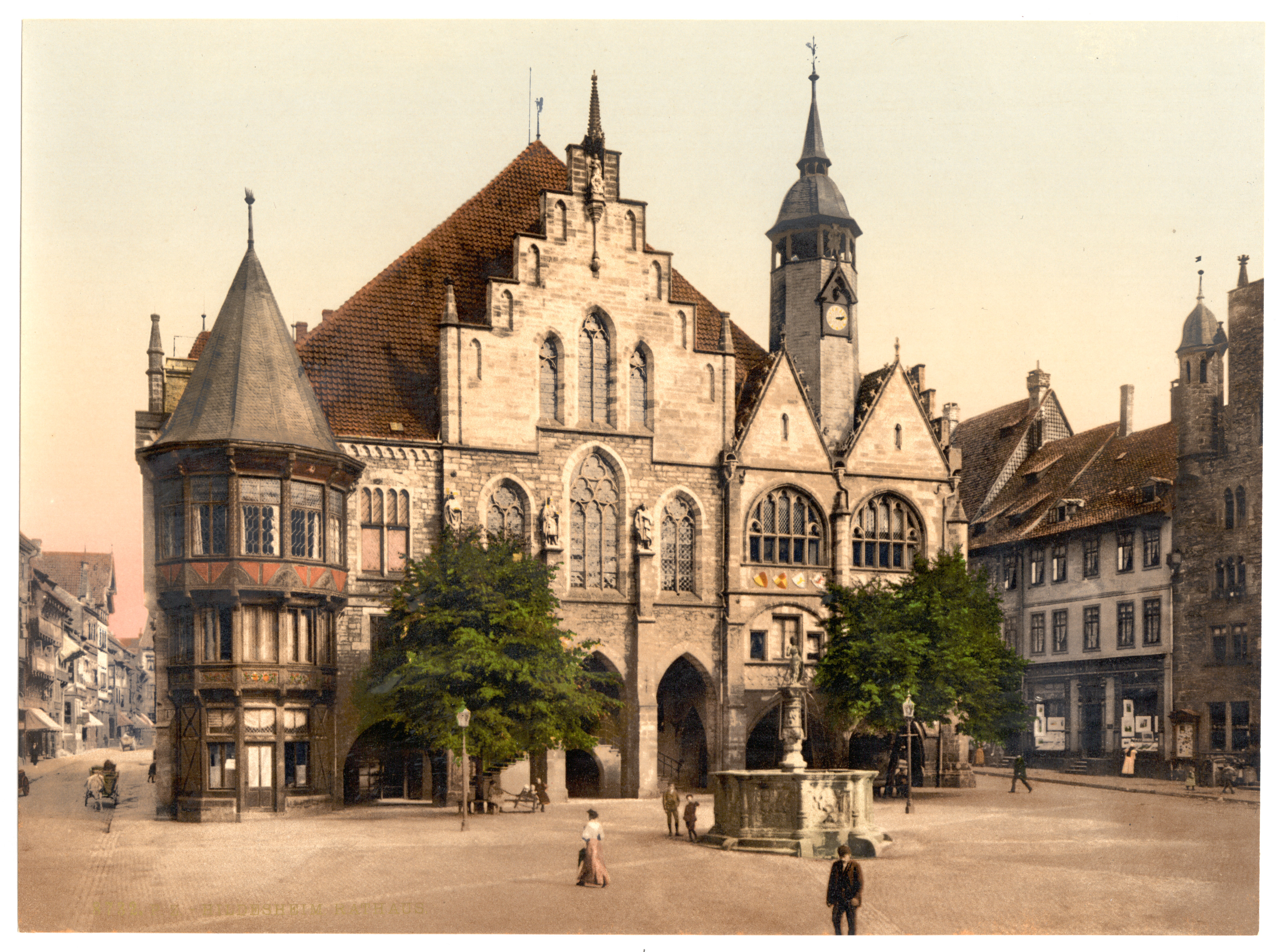 Townhall, Hildesheim, Lower Saxony, Germany. This image belongs to the Category:Photochrom pictures in their original state. This is an unprocessed image. Its purpose is to show the properties of a photochrom print. Please do not modify this image. Modifications will be reverted.